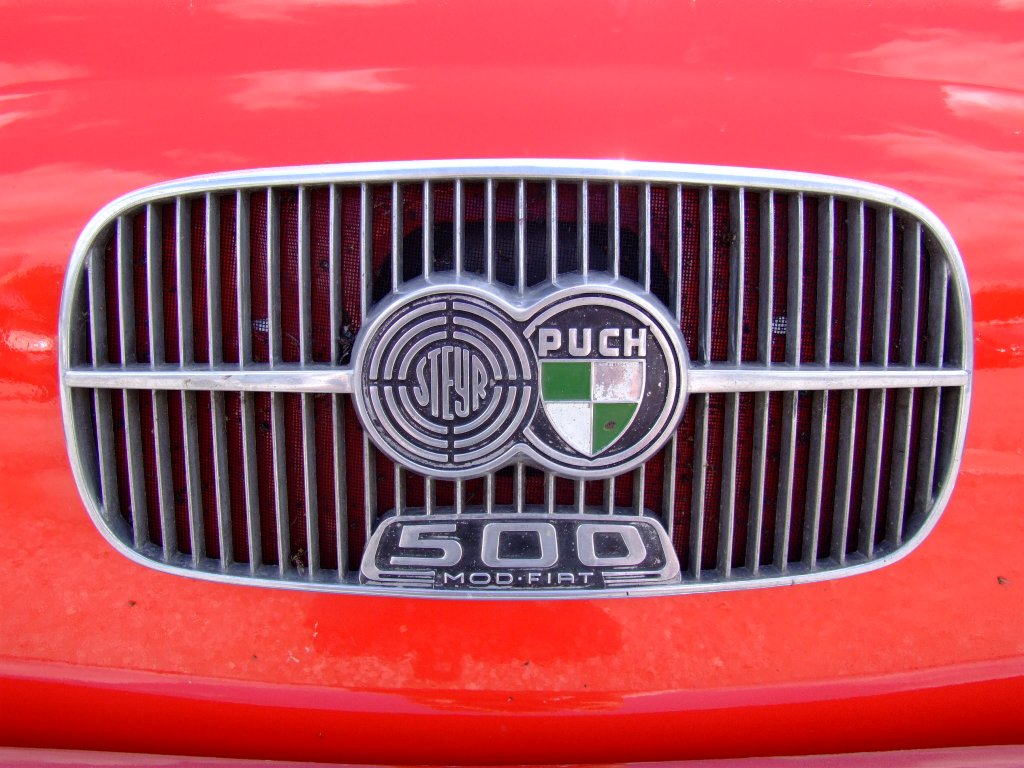 Summary Quelle: selbst fotografiert, 06/2006 Fotograf: Späth Chr.